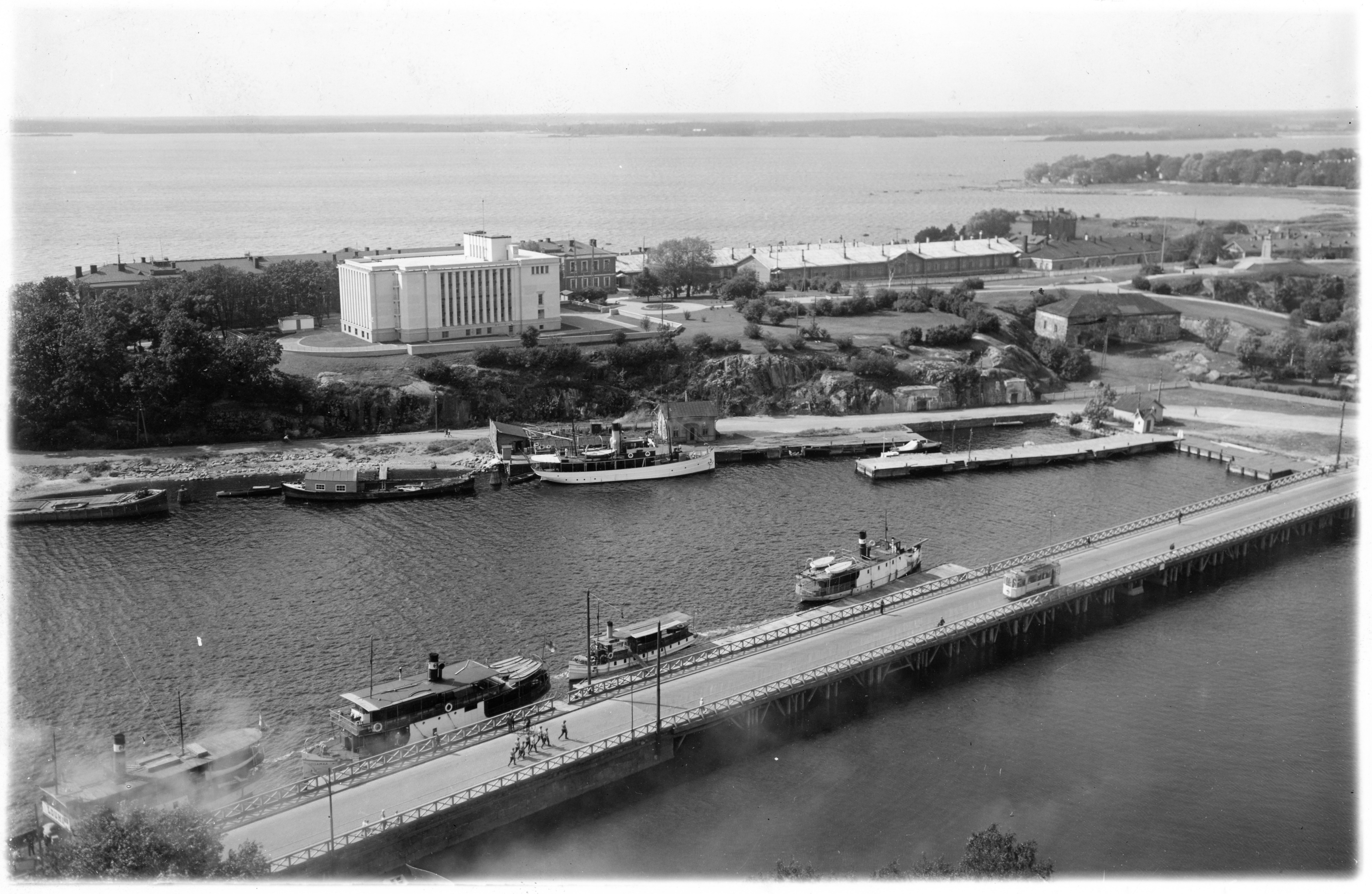 Vyborg Provincial Archives in 1934.